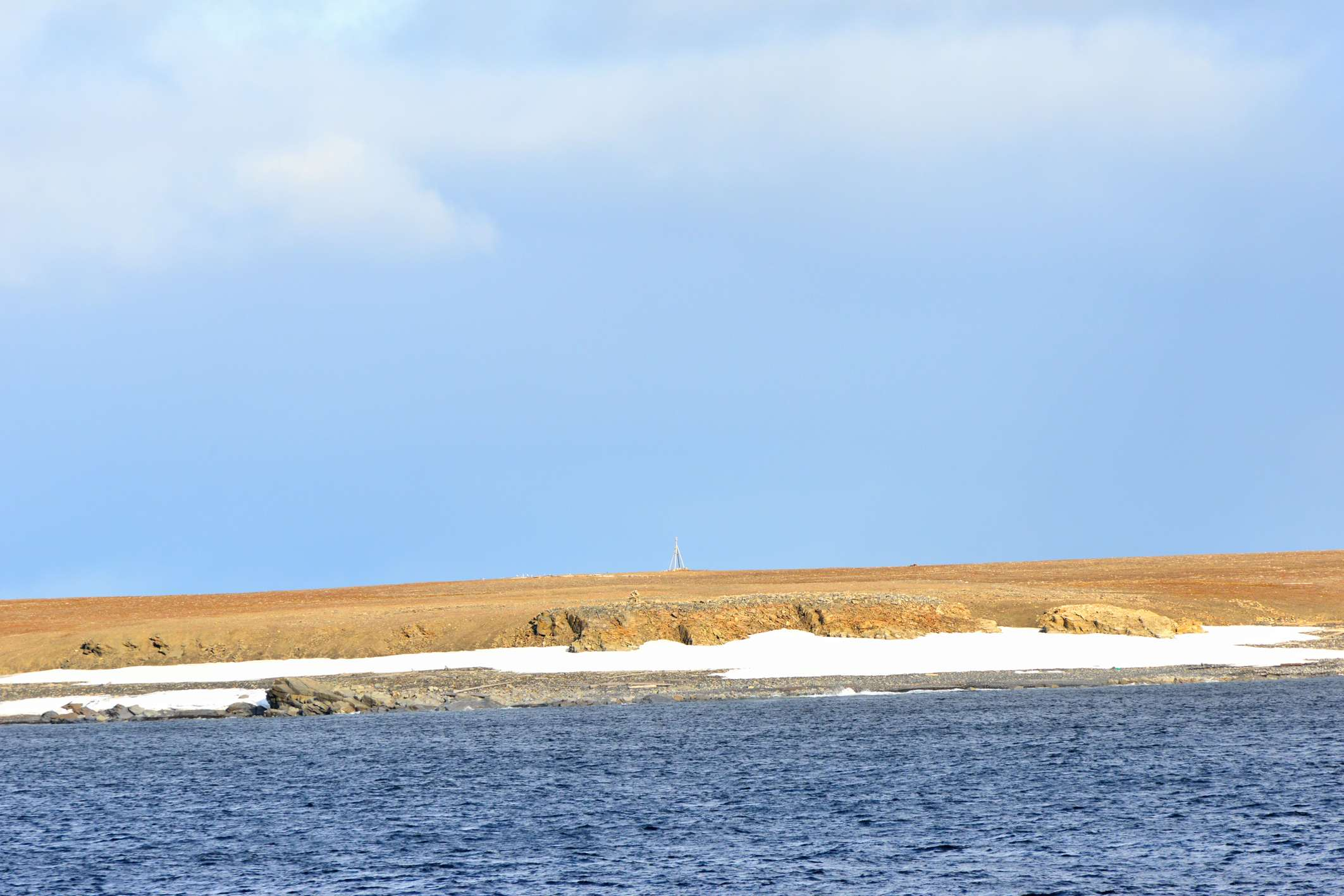 Barents Bay (Northern Island of Nowaya Semlya Archipelago, Russia; 76°27’N, 68°42’E)